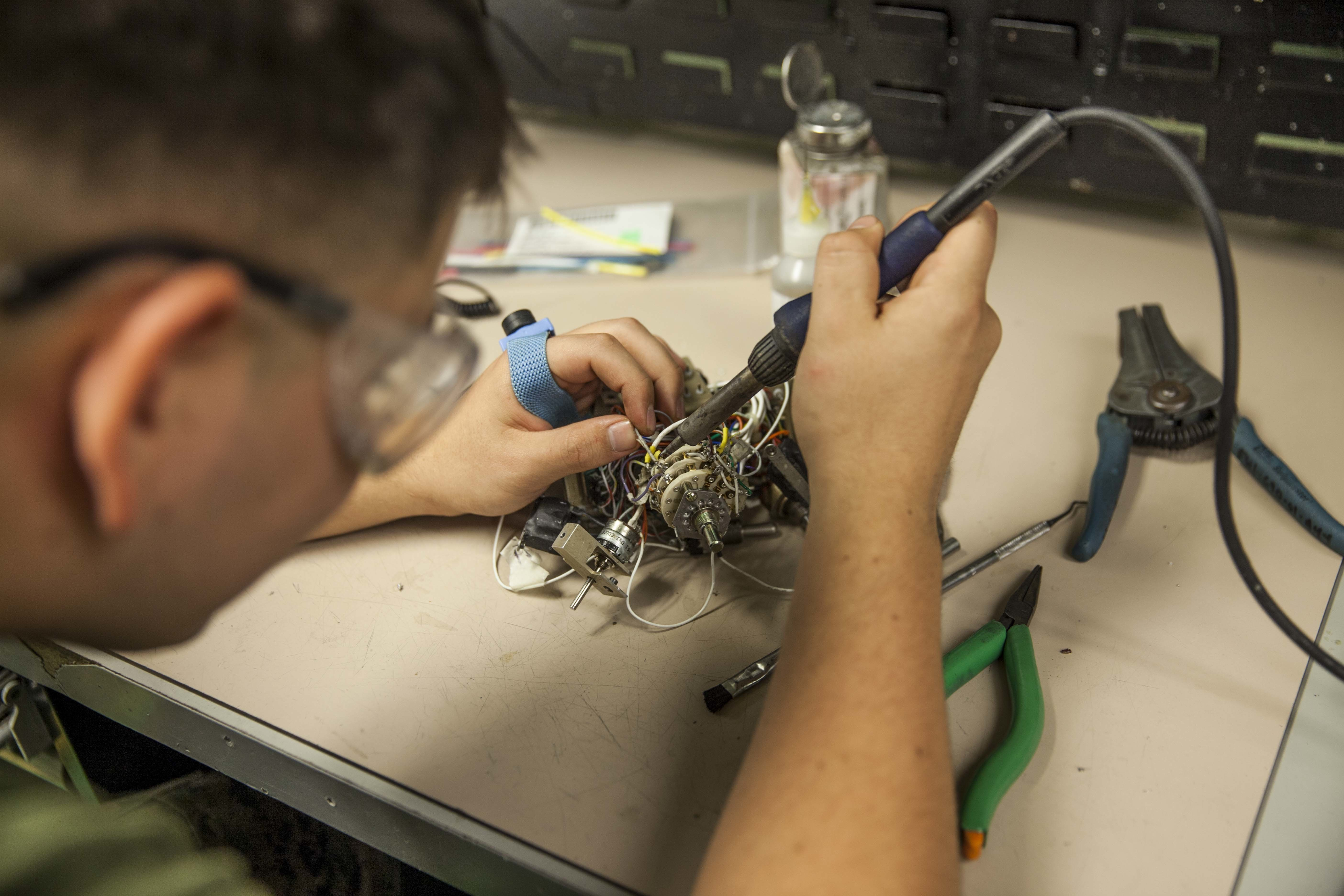 U.S. Marine Corps Lance Cpl. Mario Nino, an aviation electronic micro/miniature component and cable repair technician assigned to Marine Aviation Logistics Squadron (MALS) 29, solders together damaged wires aboard Marine Corps Air Station New River, N.C., Oct 18, 2016. MALS-29’s mission is to provide aviation logistics support, guidance, planning, and direction to other squadrons within the Marine Aircraft Group, as well as logistics support for Navy funded equipment in the supporting Marine Wing Support Squadron, Marine Air Control Group, and Marine Aircraft Wing/Mobile Calibration Complex. (Marine Corps Photo by Lance Cpl. Anthony J. Brosilow/Released) Unit: 2nd Marine Aircraft Wing Combat Camera